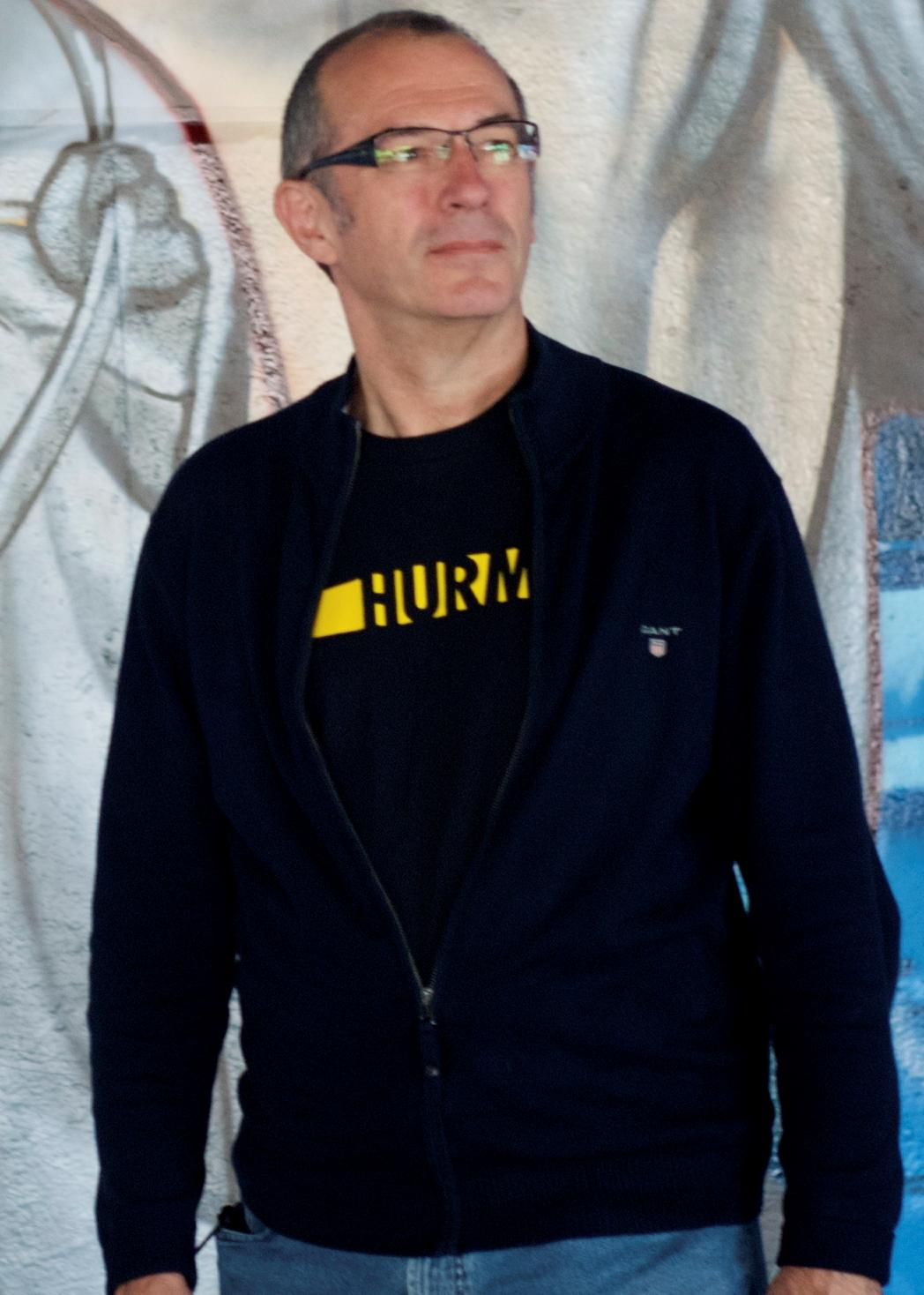 Dave Gibbons on celebratIng the release of the Watchmen movie DVD